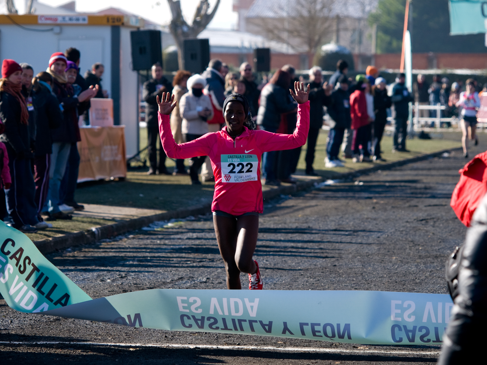 Verónica Nyaruai wins the 30th Cross Internacional de Venta de Baños in 2009.